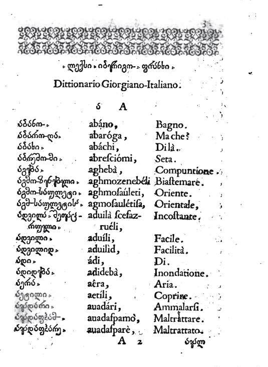 Page from the "Georgian-Italian Dictionary by Stefano Paolini and Niceforo Irbachi". The first printed Georgian book, Rome, 1629